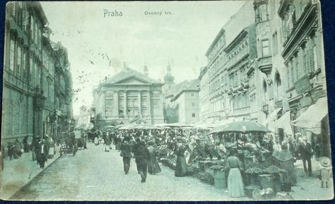 Prague: Ovocný trh (Fruit Market), 1907.